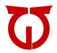 Hinoemata Fukushima chapter